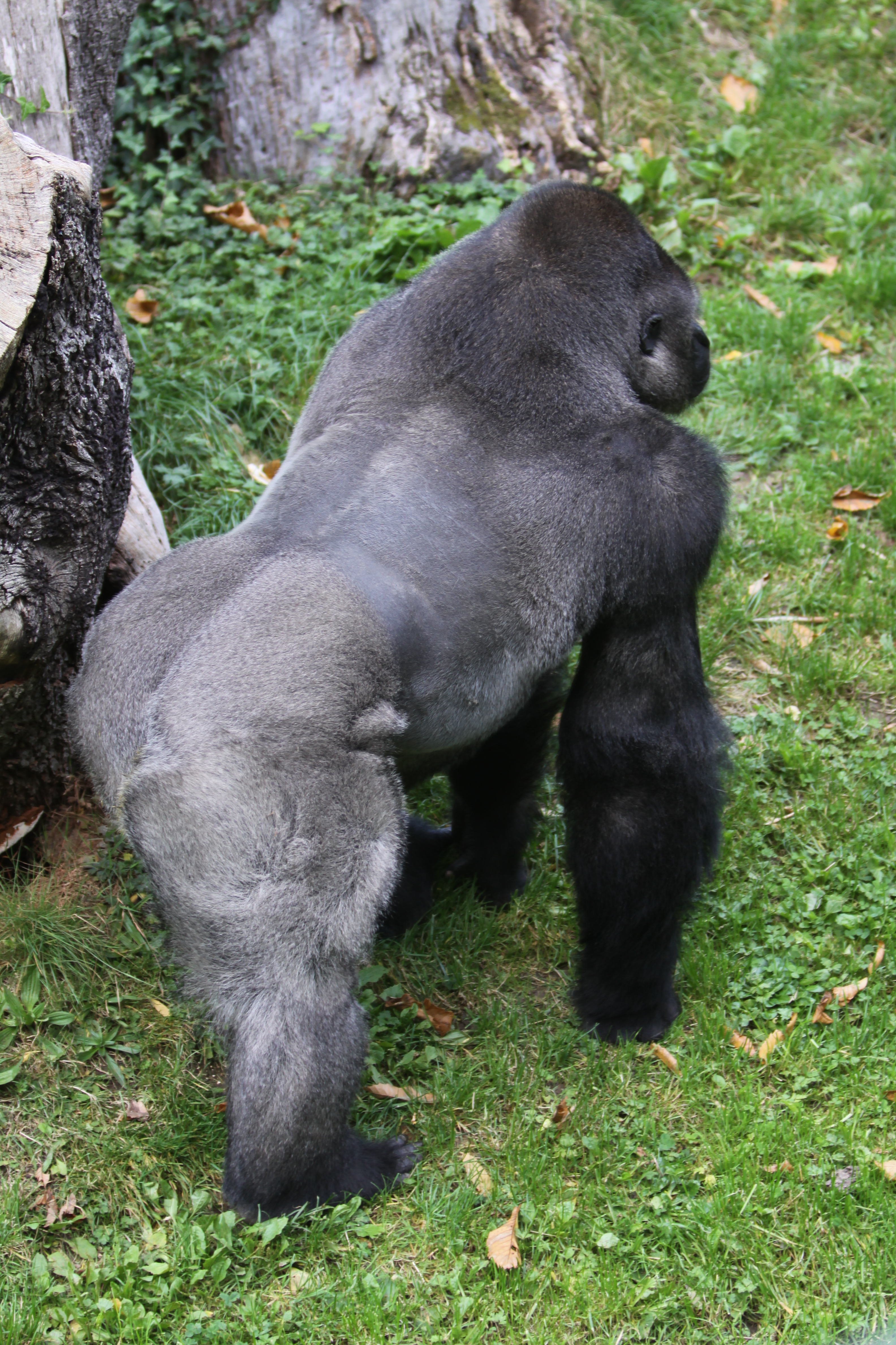 Male western lowland gorilla (Gorilla gorilla gorilla). Groupleader at Durrell Wildlife Park (Jersey)